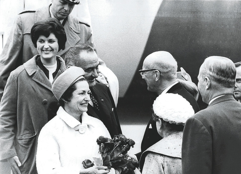 Photograph of the US Vice President L. B. Johnson visiting Finland in September 1963, here seen with Mrs. Johnson and President Urho Kekkonen.